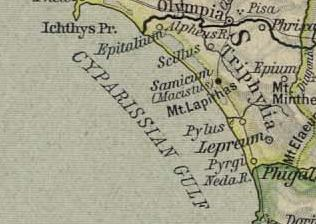 Map of Lepreus, cropped from old public domain map of Greece, from the Perry-Castañeda Library Map Collection, Historical Atlas by William R. Shepherd